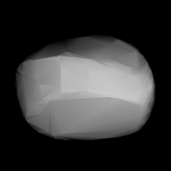 3D convex shape model of 3131 Mason-Dixon, computed using light curve inversion techniques. J. Hanuš, J. Ďurech, M. Brož, B. D. Warner (June 2011). "A study of asteroid pole-latitude distribution based on an extended set of shape models derived by the lightcurve inversion method". Astronomy and Astrophysics 530: A134. ISSN 0004-6361. arXiv